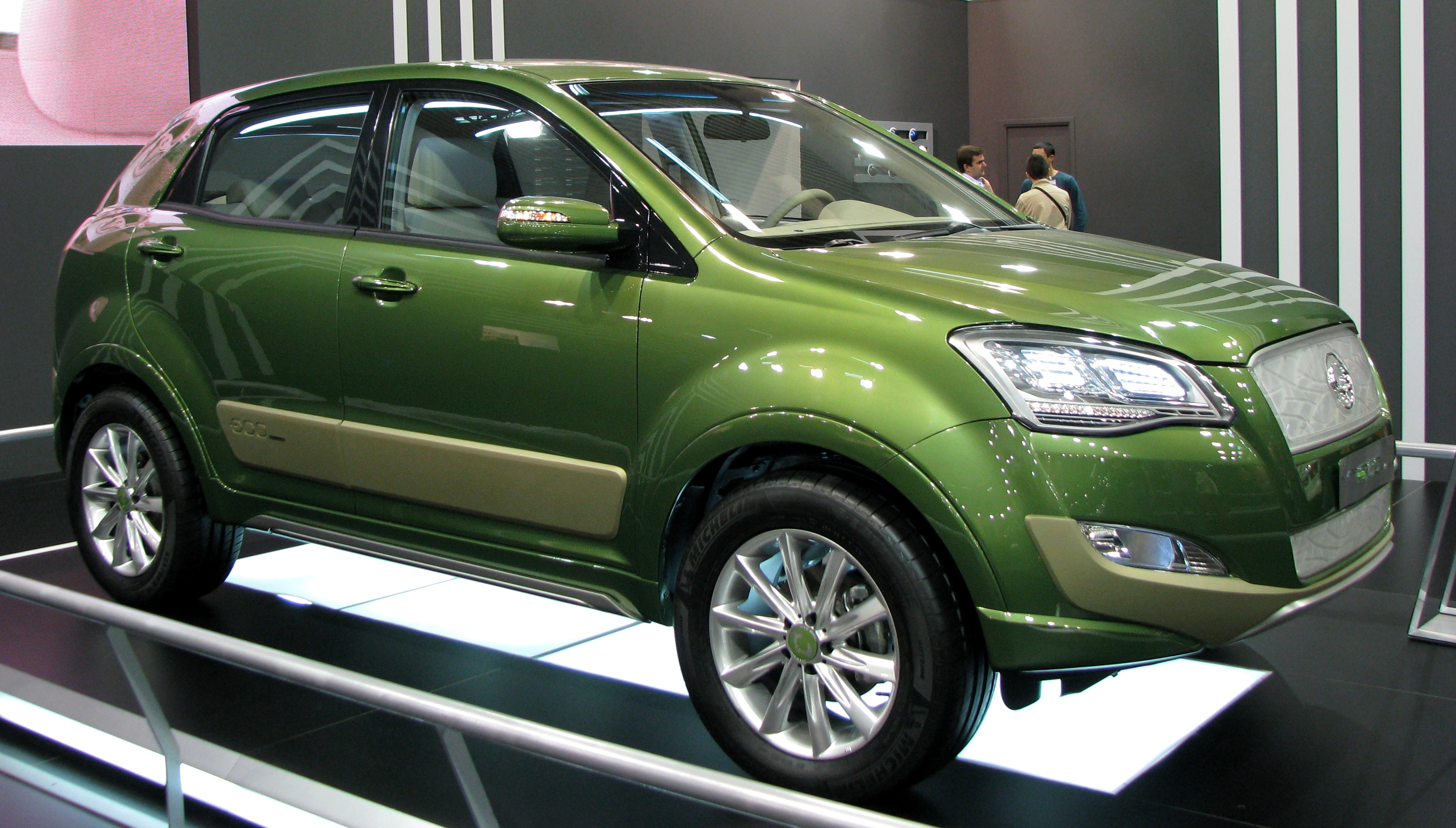 A SsangYong C200 'Eco'. This is the concept version but a production version is planned for late 2009.